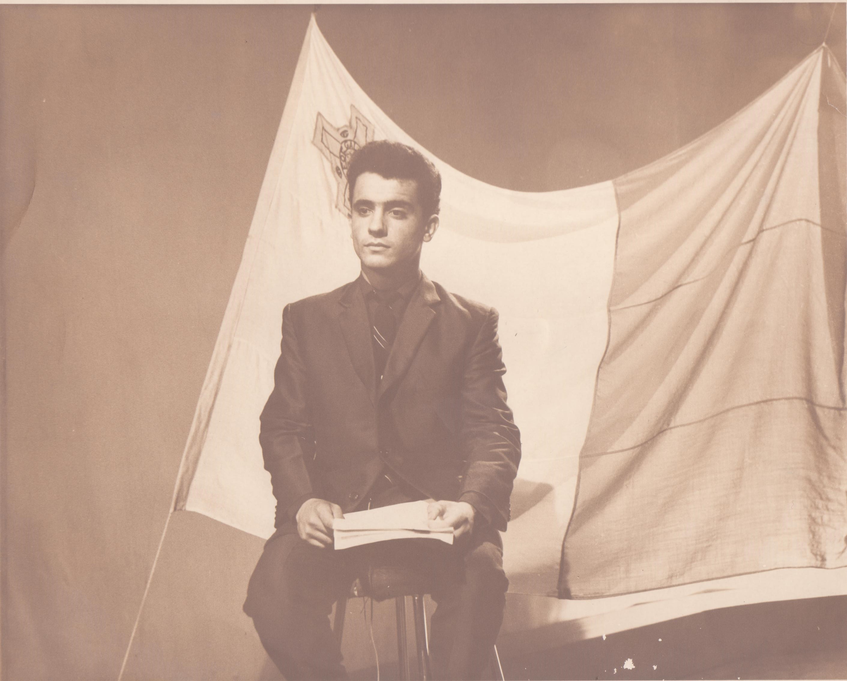 Malta's Modern National Author, Frans Sammut, and the Maltese Flag - late 60s/early 70s